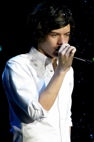 One Direction, Molson Canadian Amphitheatre, Toronto, Ontario, May 29, 2012